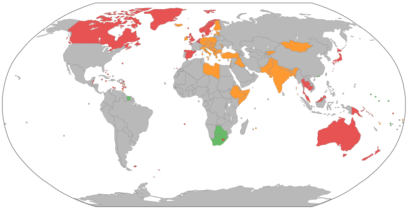 World's parliamentary states colo(u)red by form of government as of 2019